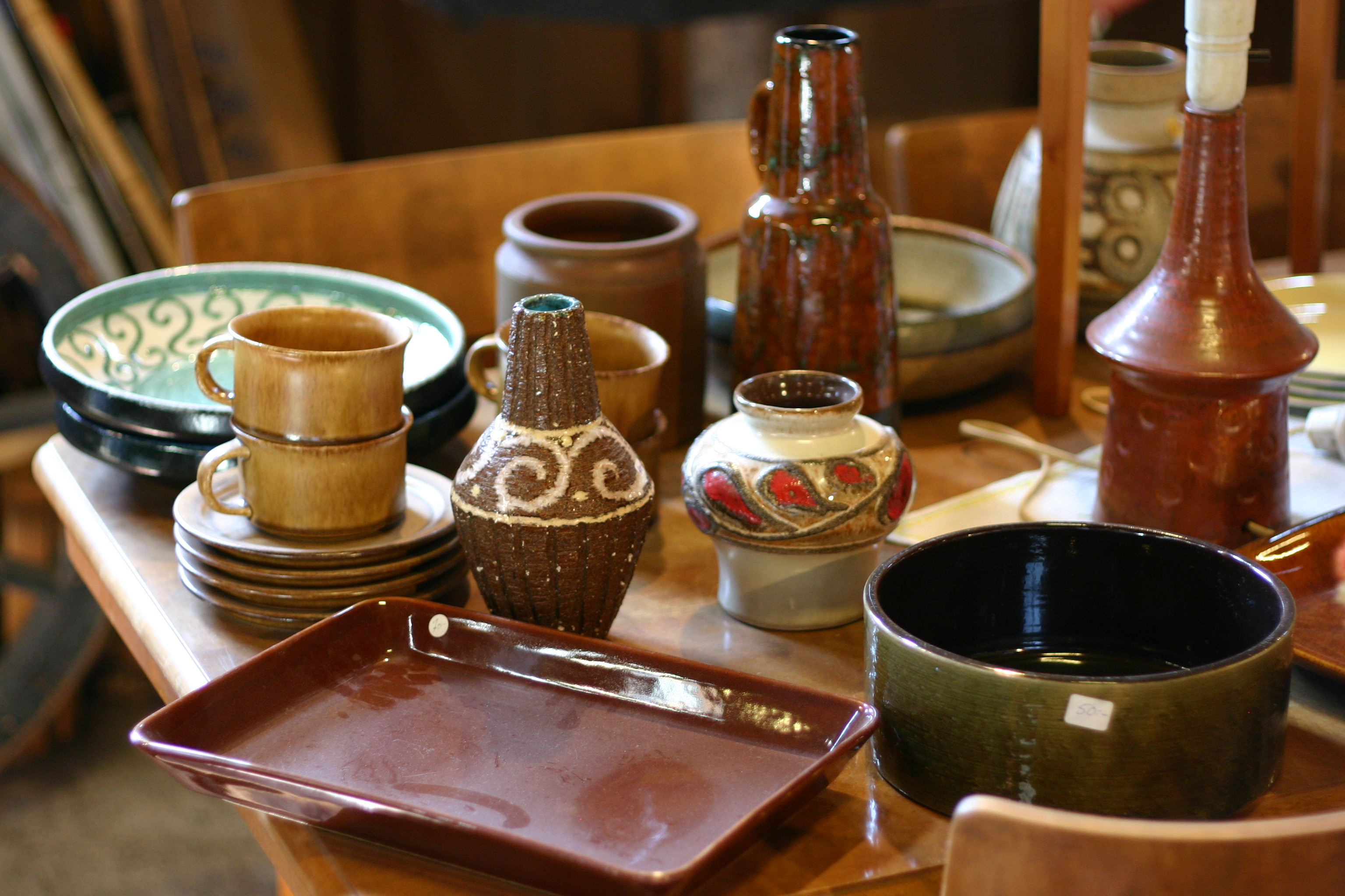 Used earthenware pottery for sale in a thriftstore in Vadstena, Sweden